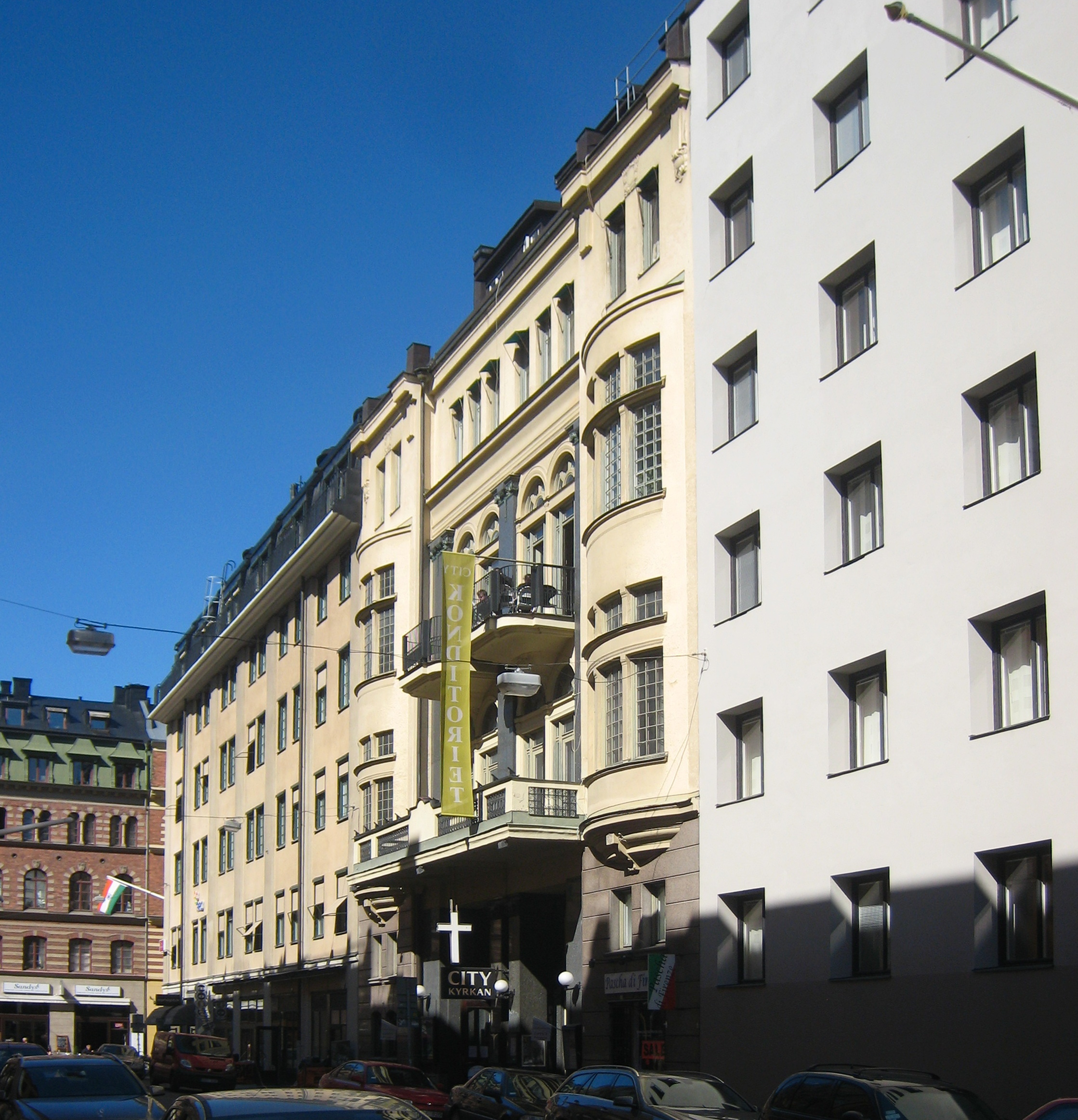 Citykyrkan Stockholm.